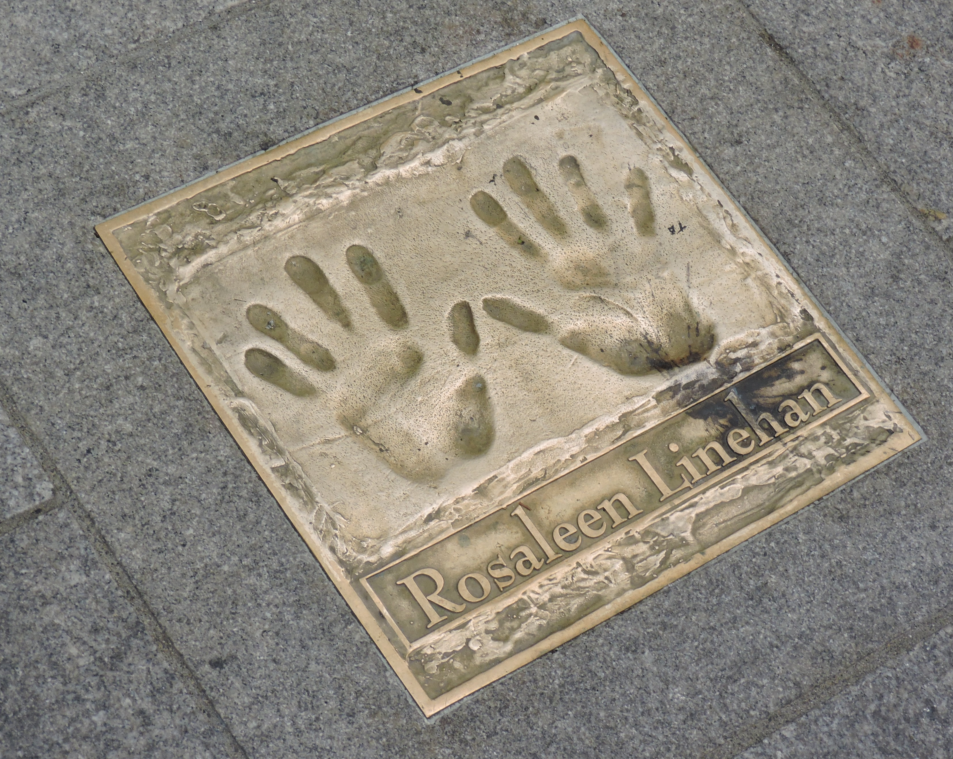 Rosaleen Linehan handprints (South King Street, in front of the Gaiety Theatre, Dublin)